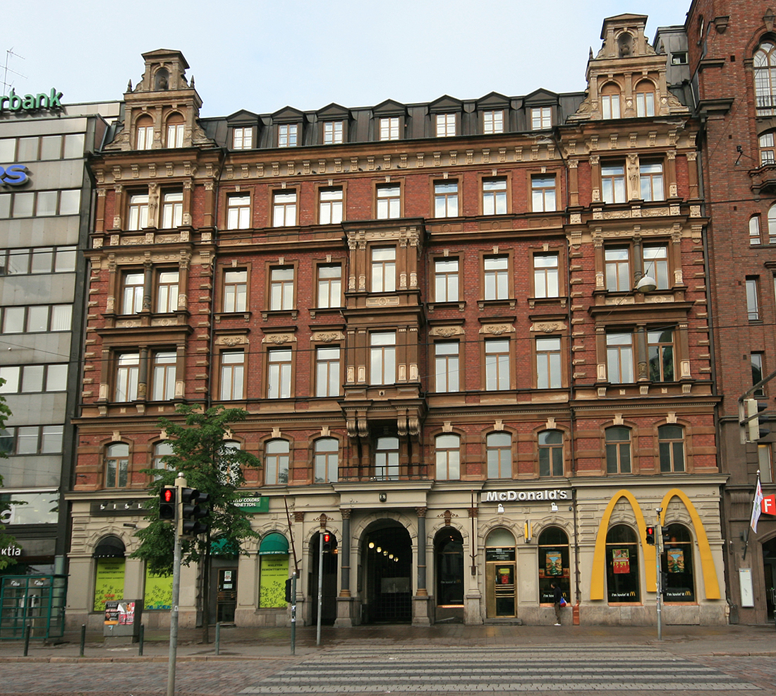 Mannerheimintie 16, Helsinki. Architects: Kiseleff & Heikel. Built 1890.